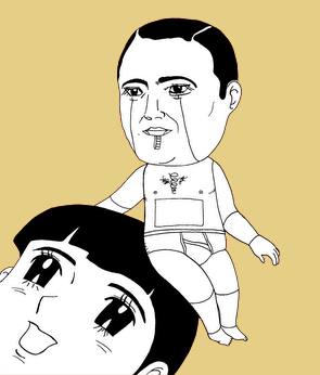 this is an ink drawing by Gregory Maass, depicting Nayoungim and Gregory Maass